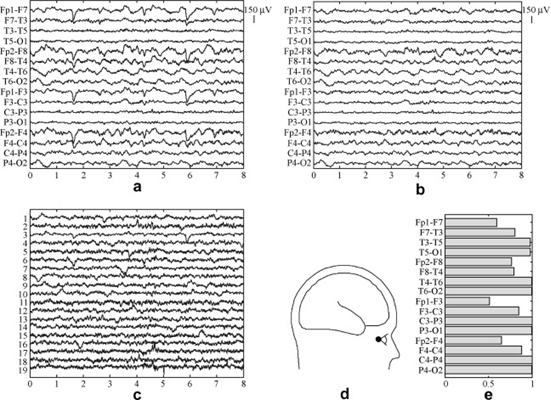 Eelectroencephalo graph